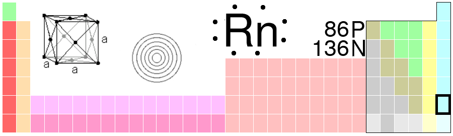 Image by Daniel Mayer or GreatPatton and released under terms of the GNU FDL